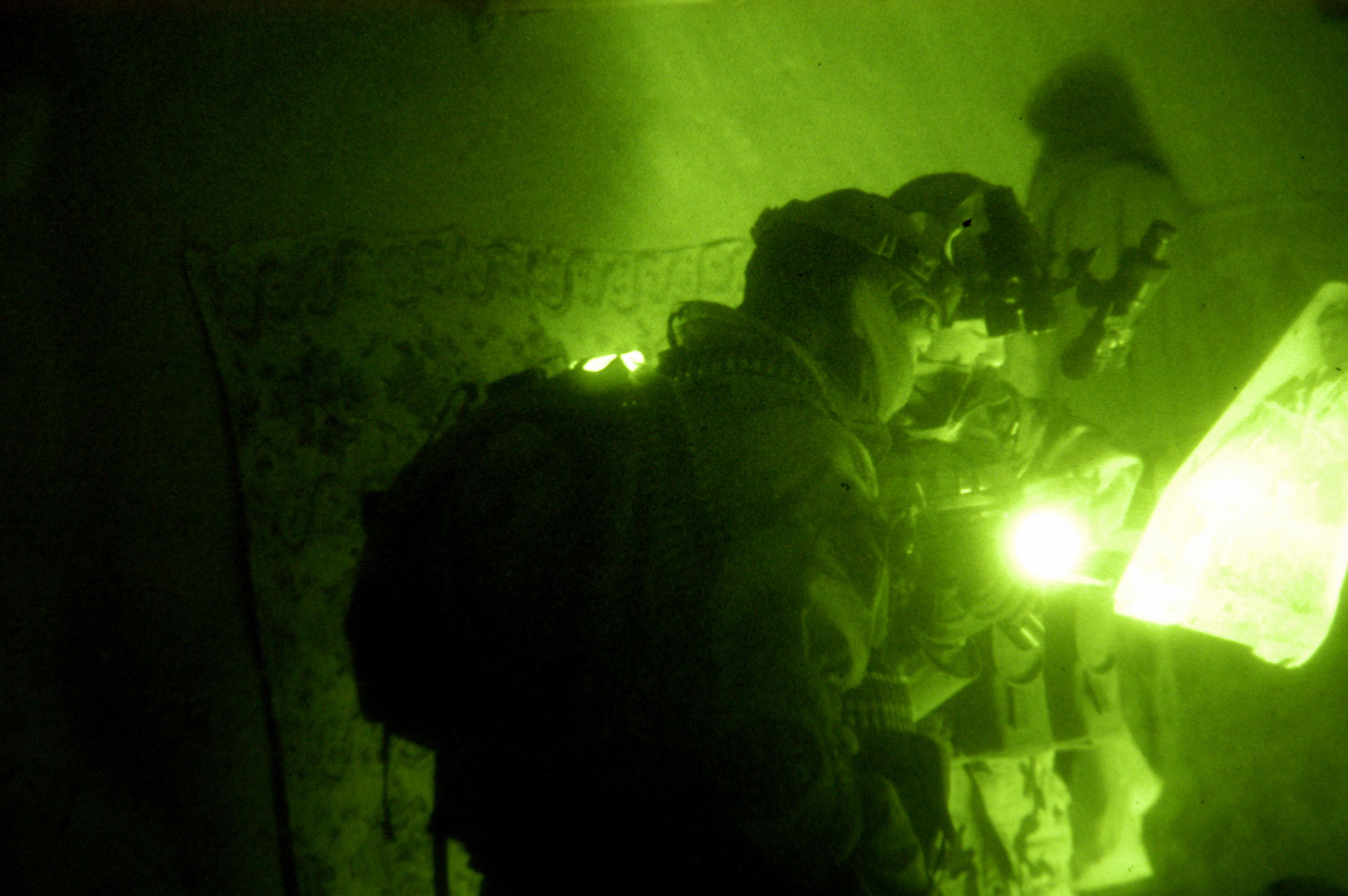 An Afghan Commando, assigned to the 203rd Corps Commando Battalion, keeps watch from the roof of a compound suspected of being an insurgent safehouse near Zambar Village, Sabari District, Khowst province, while his fellow Commandos clear rooms, gather information, and question detainees Dec. 27. The Commandos led a combined force consisting of other Afghan national army units, Afghan national police, and Afghan national border police. The combined force was acting upon credible intelligence to search an area of known insurgent activity. (Photo/Combined Joint Special Operations Task Force - Afghanistan)